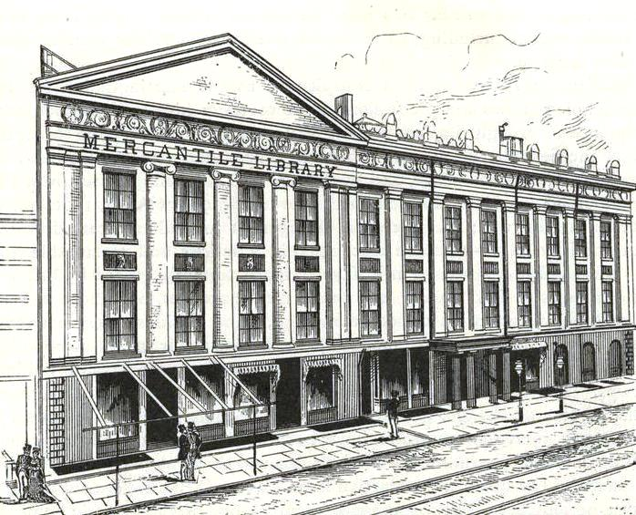 The Mercantile Library in the Astor Opera House Building, 1886 Image Title: The Opera House, Astor Place, home of the Mercantile Library. Published Date: 1886 Specific Material Type: Prints Item Physical Description: 1 print : b&w ; 11 x 12 cm. (4 3/4 x 4 3/4 in.) Original Source: From Magazine of American History, with notes and queries. (New York : A. S. Barnes & Co., 1877-1893) . Source: Mid-Manhattan Picture Collection / New York City -- opera houses Source Description: 1 folder (17 pictures) Location: Mid-Manhattan Library / Picture Collection Catalog Call Number: PC NEW YC-Ope Digital ID: 806110 Record ID: 693953 Digital Item Published: 10-28-2005; updated 8-10-2010